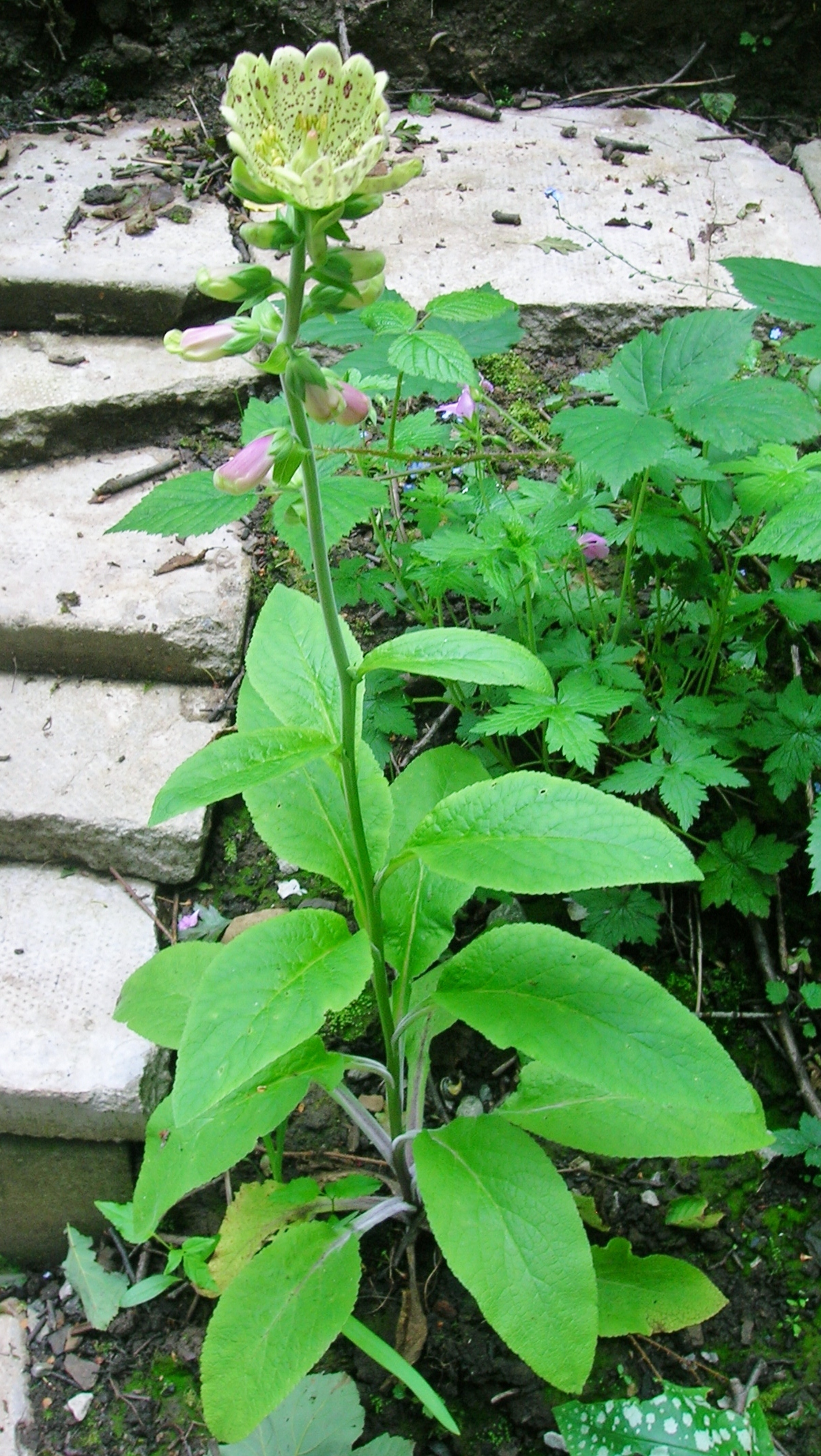 Digitalis purpurea (Foxglove) showing peloria of a single terminal flower, Barrmill - Vale Grove, North Ayrshire, Scotland